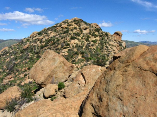 Rocky Peak from a nearby false summit